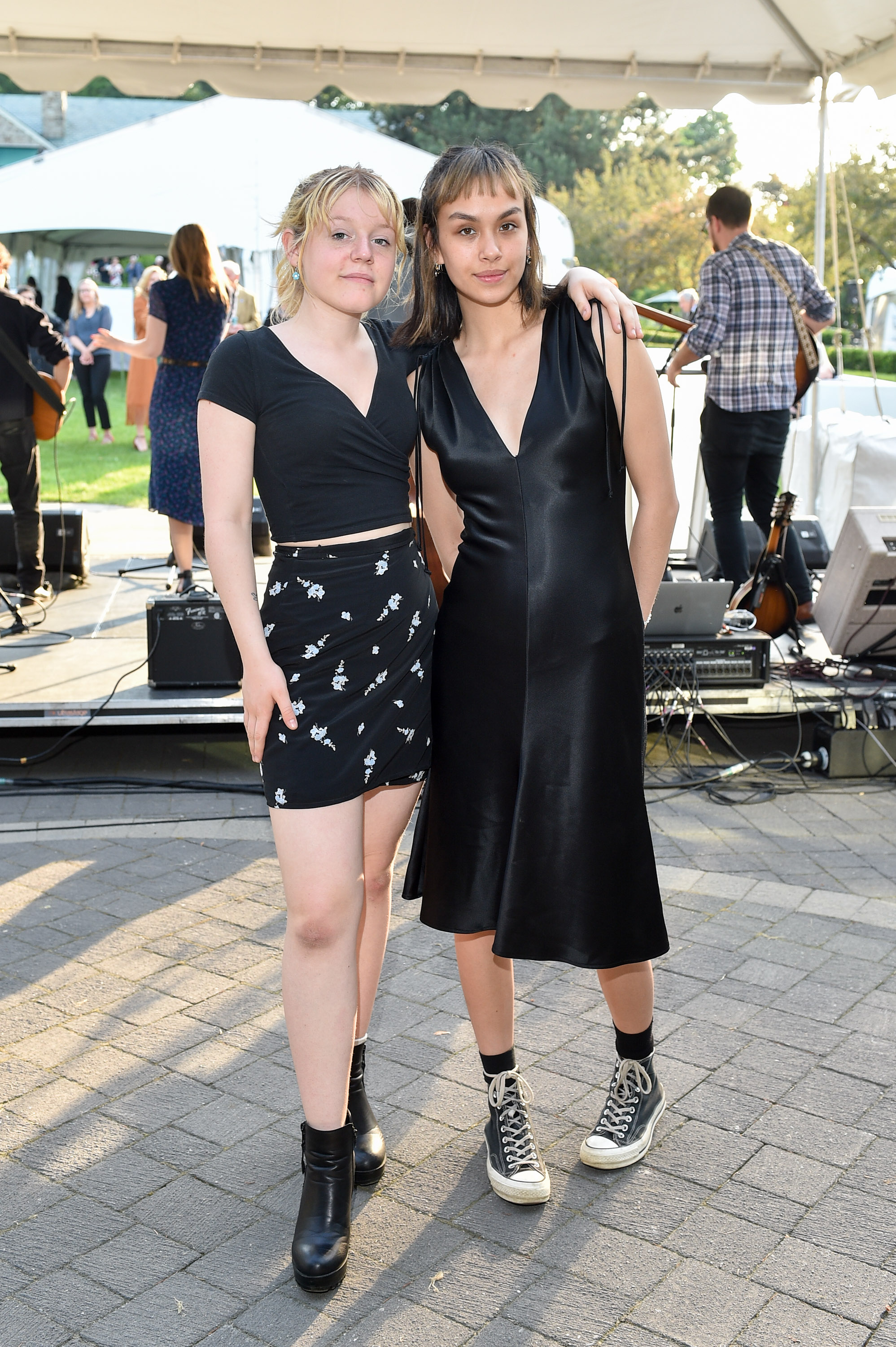 Moscow Apartment band members Brighid Fry and Pascale Padilla.